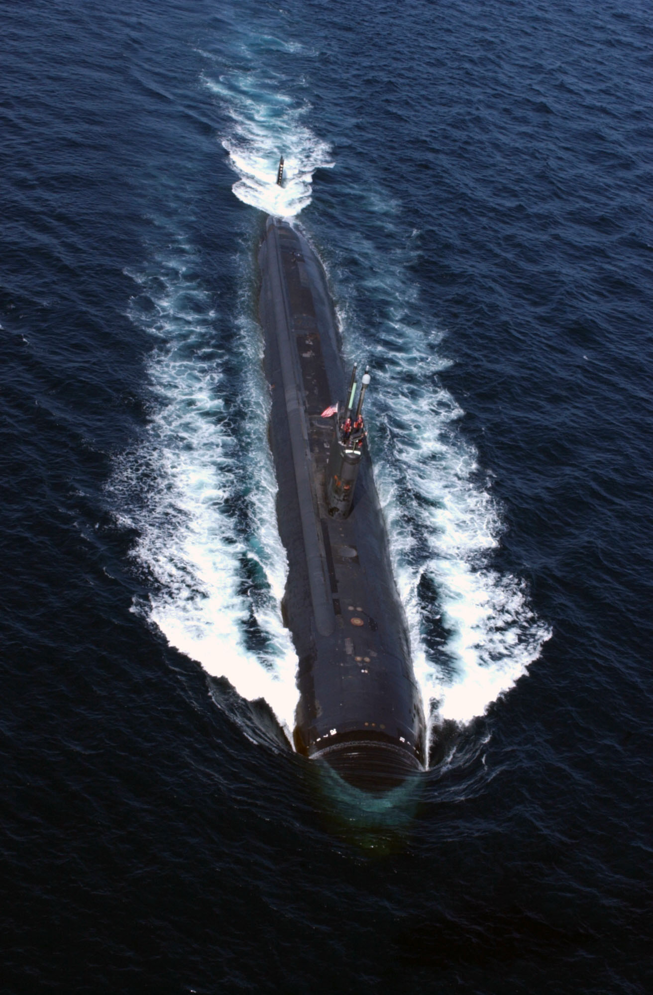 Gulf of Oman (Mar. 25, 2004) — The Los Angeles-class attack submarine USS Albany (SSN-753) surfaces in the Gulf of Oman. Albany was participating in a Multilateral Undersea Warfare (USW) exercise conducted in the U.S. Naval Forces Central Command/Commander Fifth Fleet area of responsibility. The exercise's objective was to promote Anti-Submarine Warfare (ASW) interoperability between the United States, coalition, and other multinational forces operating in the region.